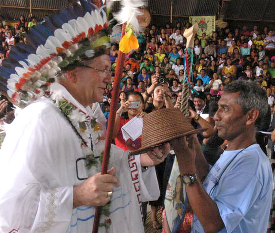 Bishop Edson Damian, with tucum's ring at left hand, the day of his episcopal ordination.